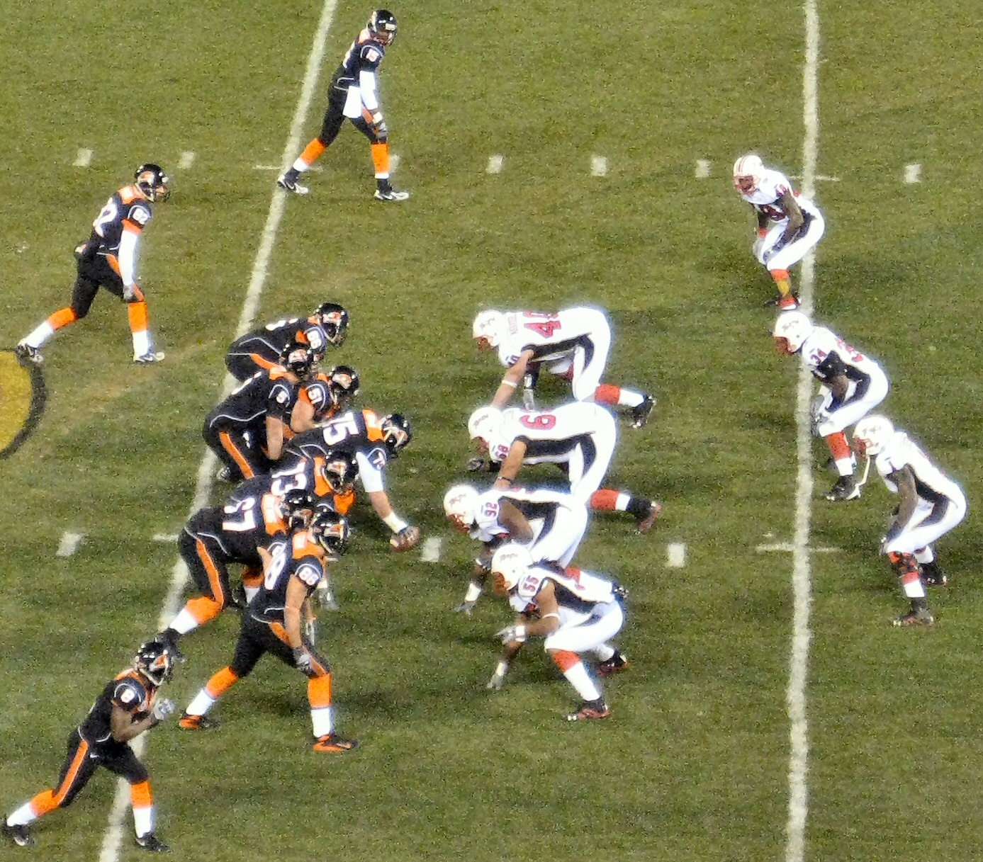 The Maryland Terrapins and Oregon State Beavers meet at the line of scrimmage in the 2007 Emerald Bowl.